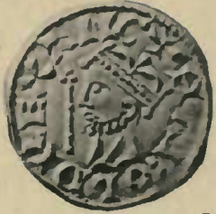 A silver penny - 20.3 grains, 0.75 fine - of King Harold (II) Godwinson of England (r. 1066).